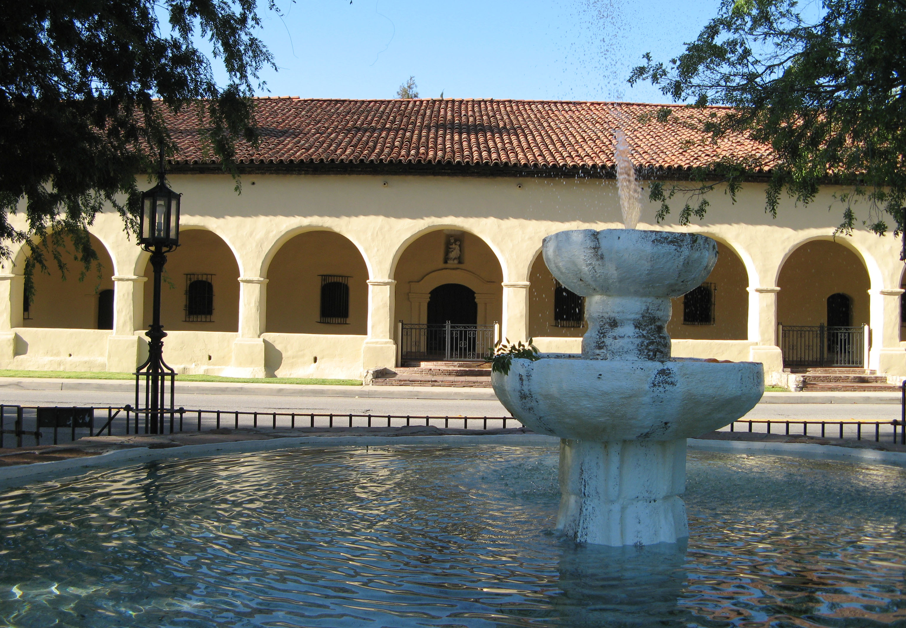 Fountain in gardens of Brand Park. Arcade of Mission San Fernando Rey de España across the street. Located in Mission Hills, San Fernando Valley, Los Angeles. Photographed and uploaded by user:Geographer